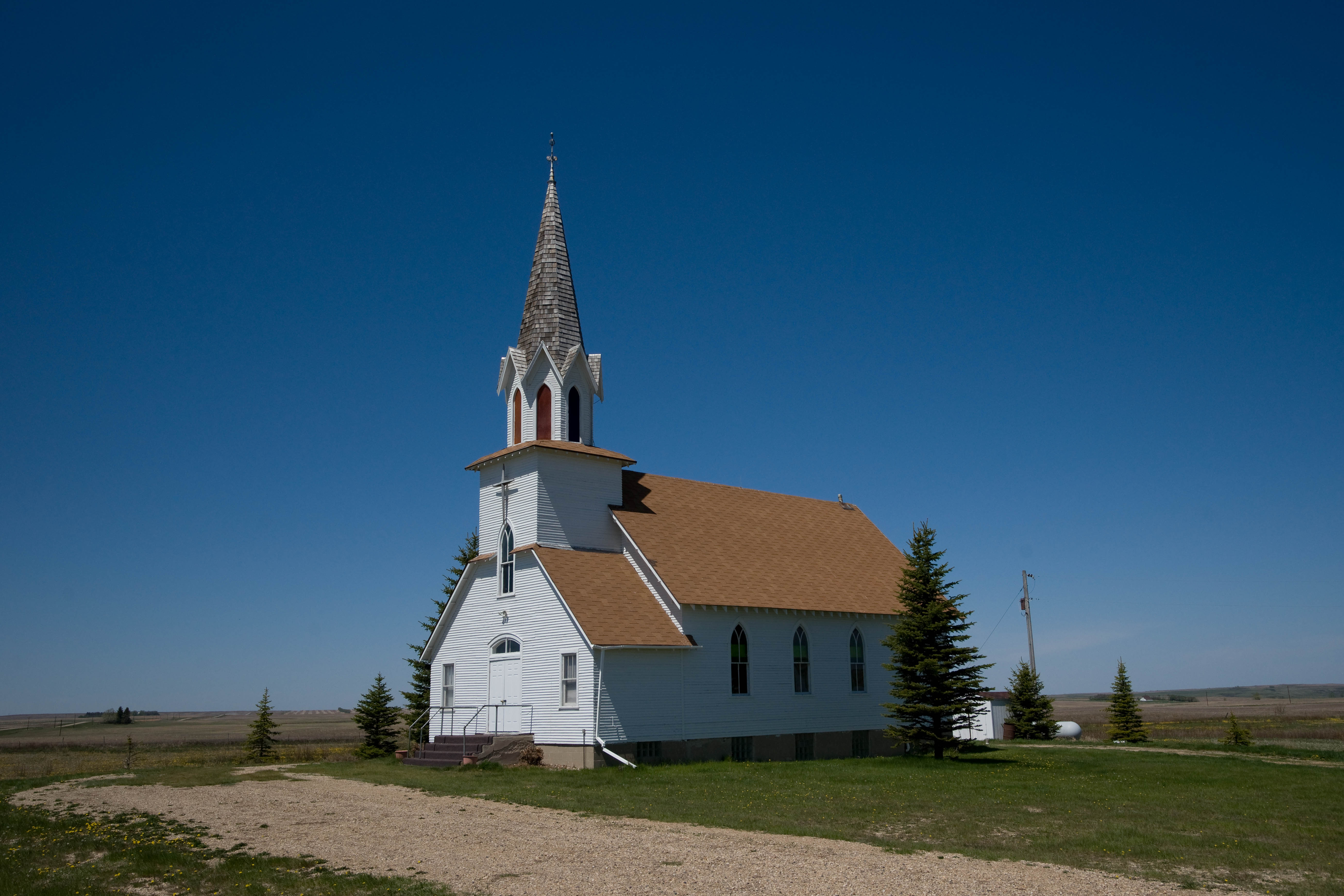 First English Free Lutheran Church of Lostwood, North Dakota. Built in 1922-1923 with an addition in 1946